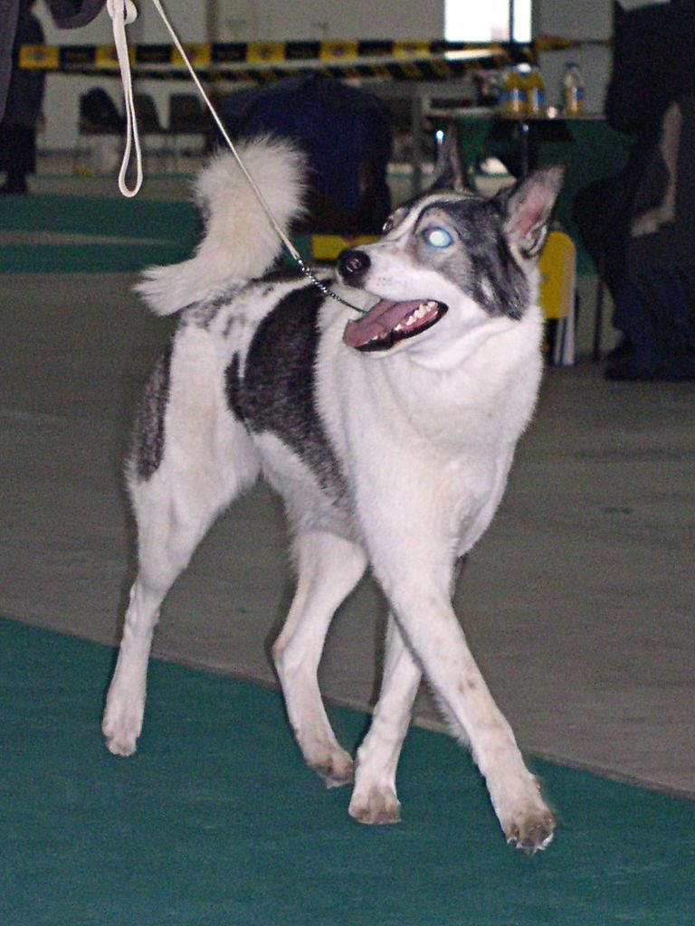 East Siberian Laika, bitch. The picture was taken by PrzemekL during World Dog Show 2006 in Poznań.